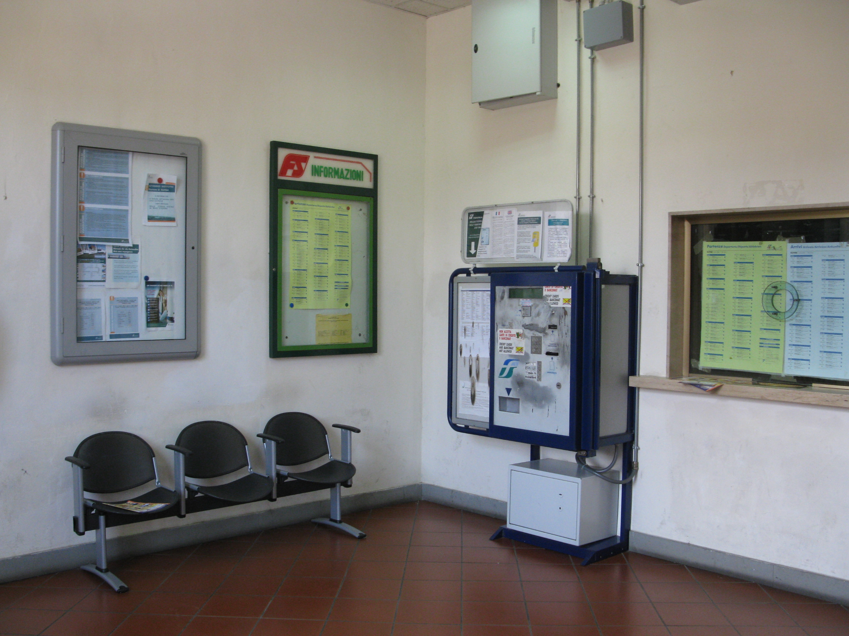 Rufina railway station, waiting room